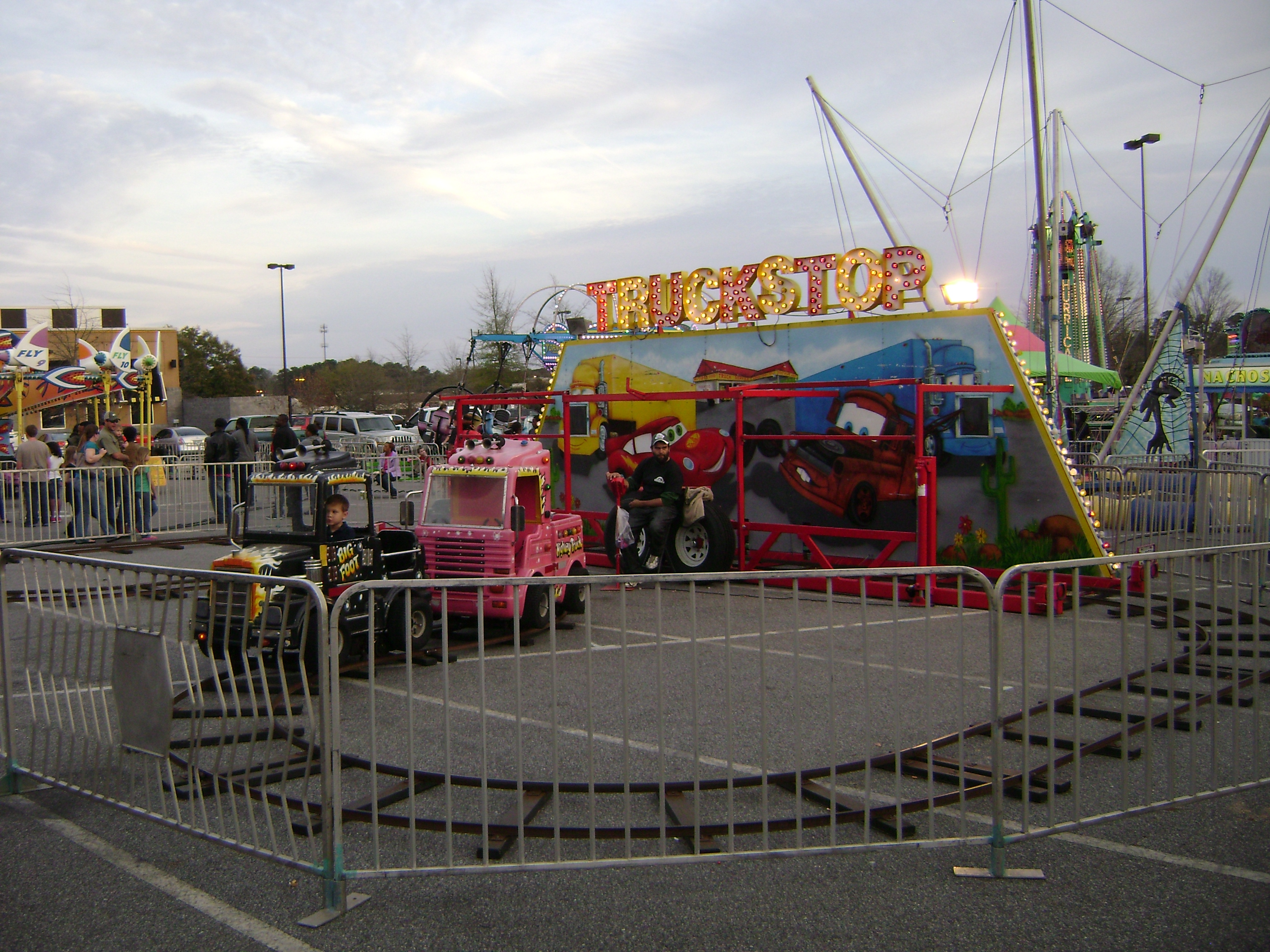 Spring Fling Festival 2013